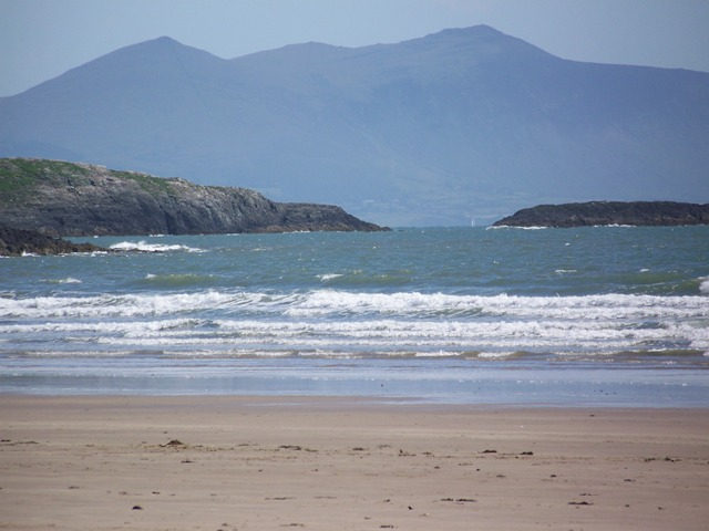 Yr Eifl Taken from Aberffraw beach.